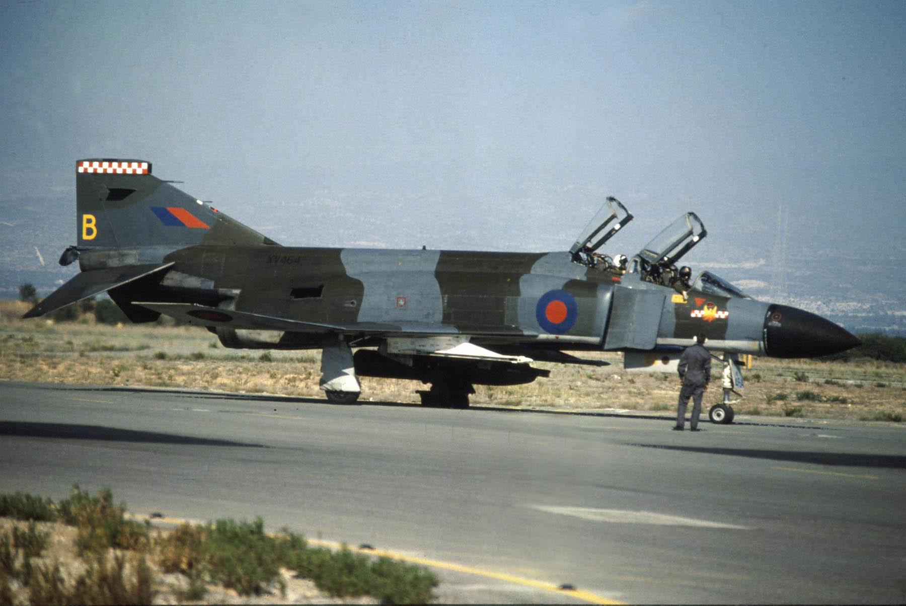 A Royal Air Force Phantom FGR.2 (s/n XV464) of 56 Squadron, RAF Wattisham, having landed at RAF Akrotiri following gunnery practice in Cyprus.